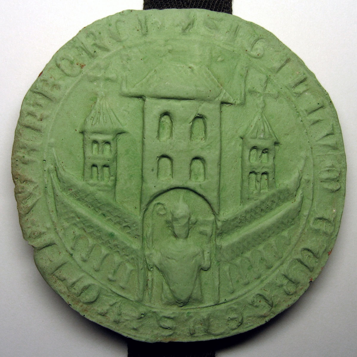 plaster cast of the seal of Warburg Neustadt below the constitutional document “Der Grote Breff” (The Great Letter), from 1436.